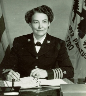 Capt. Dorothy C. Stratton, Director of the Coast Guard Women's Reserve (SPARS) during World War II.